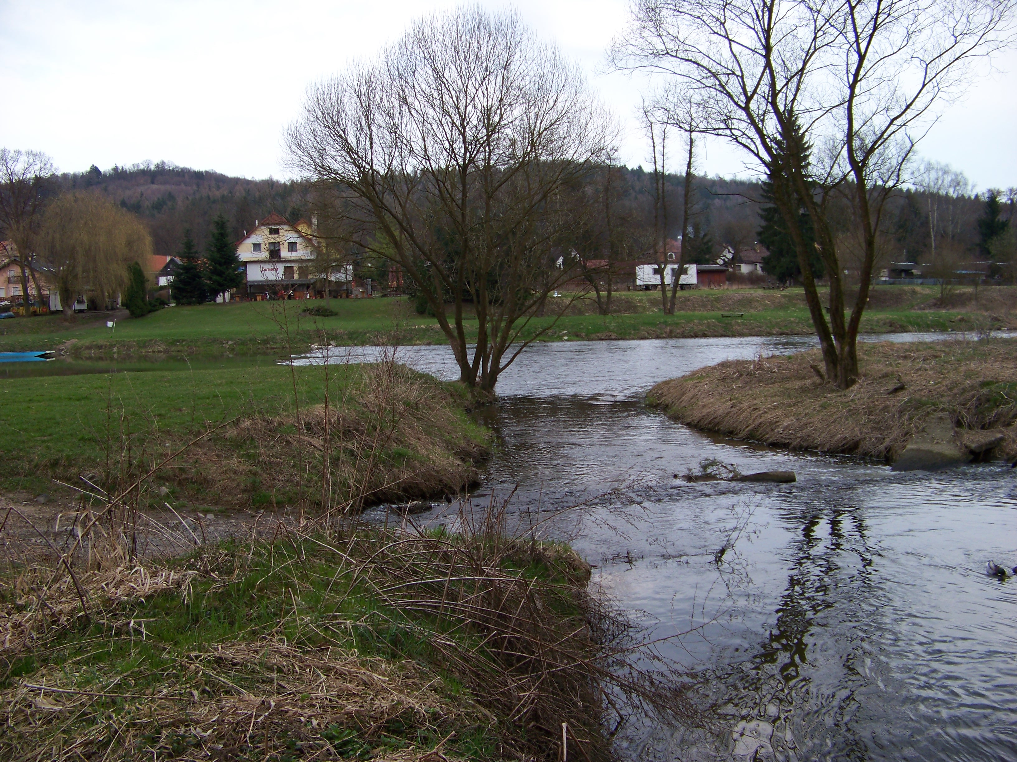 Čtyřkoly, Benešov District and Senohraby, Prague-East District, Central Bohemian Region, the Czech Republic. A confluence of Mnichovka and Sázava river. A view across the Sázava river to Lštění-Zlenice, Benešov District.